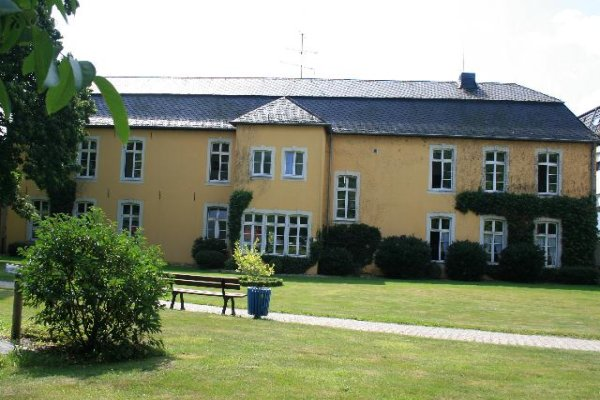 Cultural heritage monument No. 29 in Brüggen